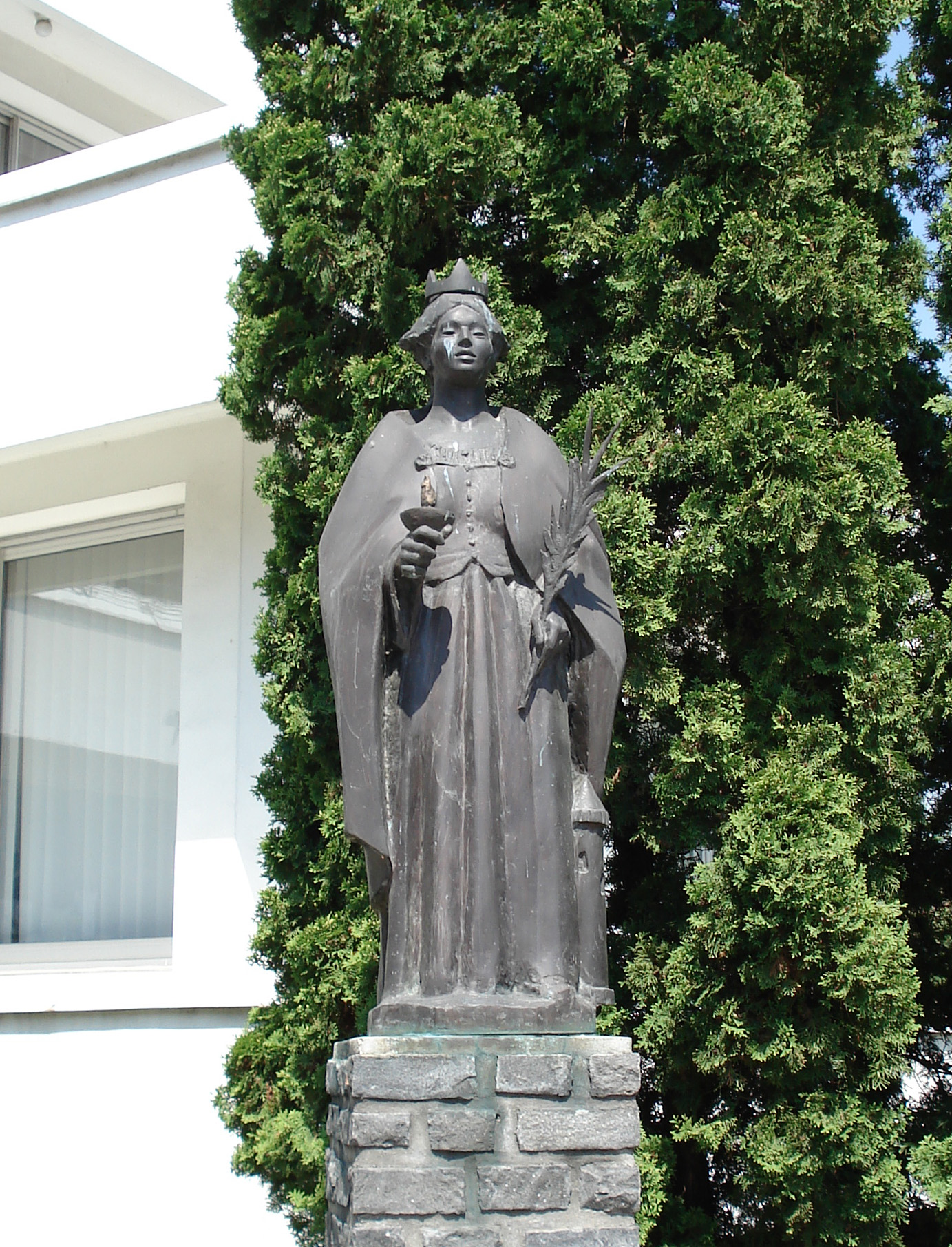 Statues of Saint Barbara. Sculptor: László Marton. Tapolca, Hungary